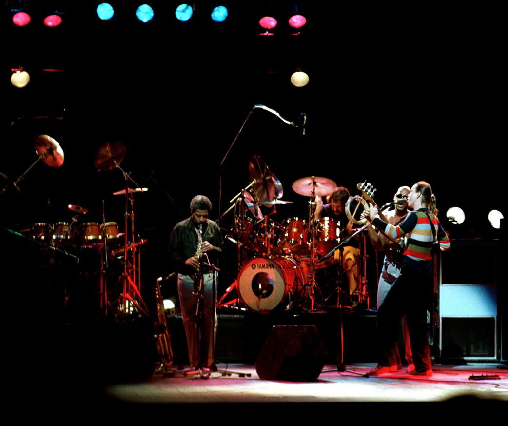 Weather Report, live at Shinjuku Kosei-nenkin Hall (Wayne Shorter (sax), Jaco Pastorius (b), Peter Erskine (dr) und Bobby Thomas Jr. (perc), not shown: Joe Zawinul (kbd))